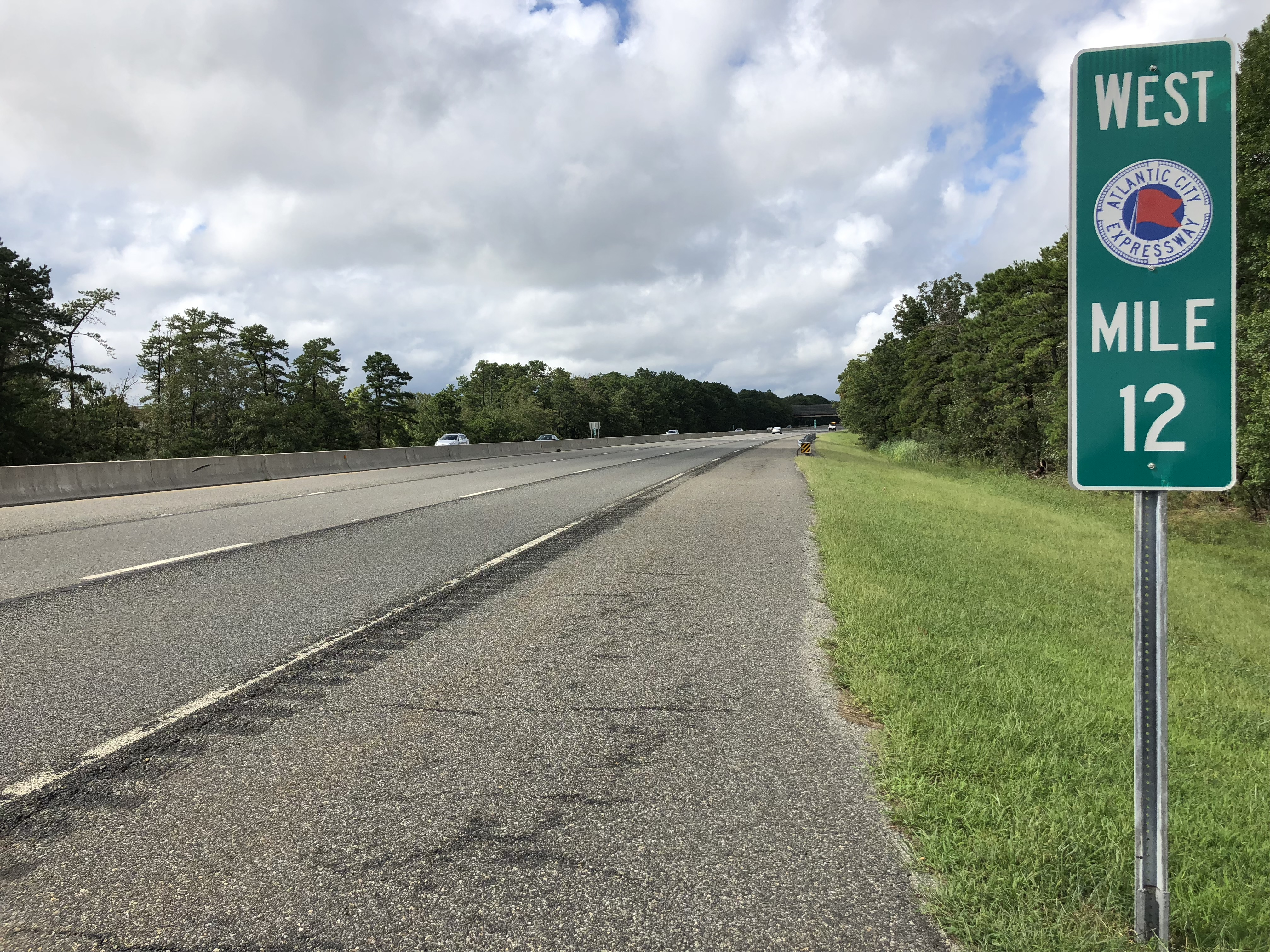 View west along New Jersey State Route 446 (Atlantic City Expressway) just west of Exit 12 in Hamilton Township, Atlantic County, New Jersey